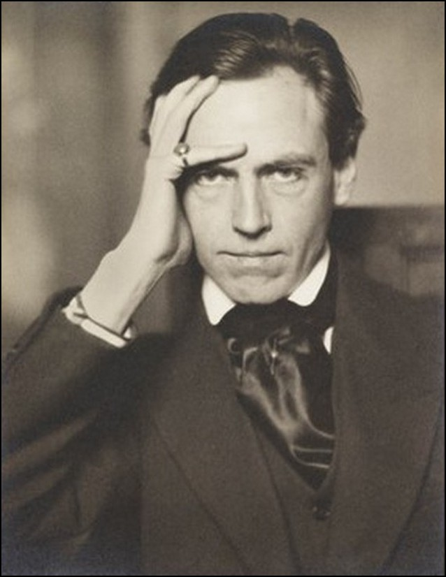 Cyril Scott, English composer, writer, and poet (b. 1879)